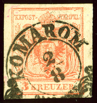 Postmark of Komárom (now Komárno, Slovakia) on KK stamp after 1850 - decorated double circle - Mueller type RDb-f